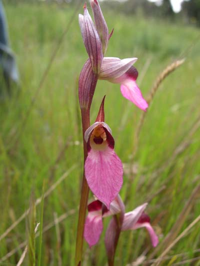 Serapias lingua, you can see more images in